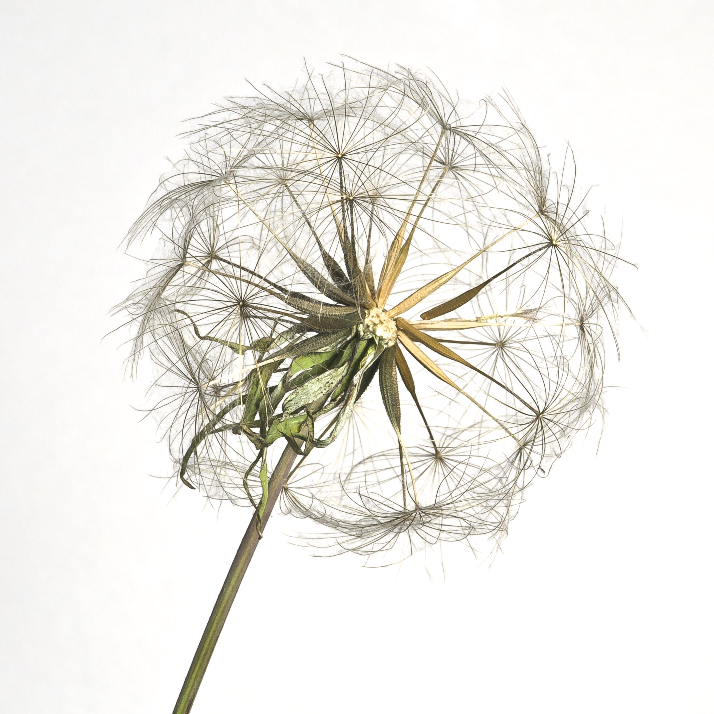 Tragopogon pratensis seedhead